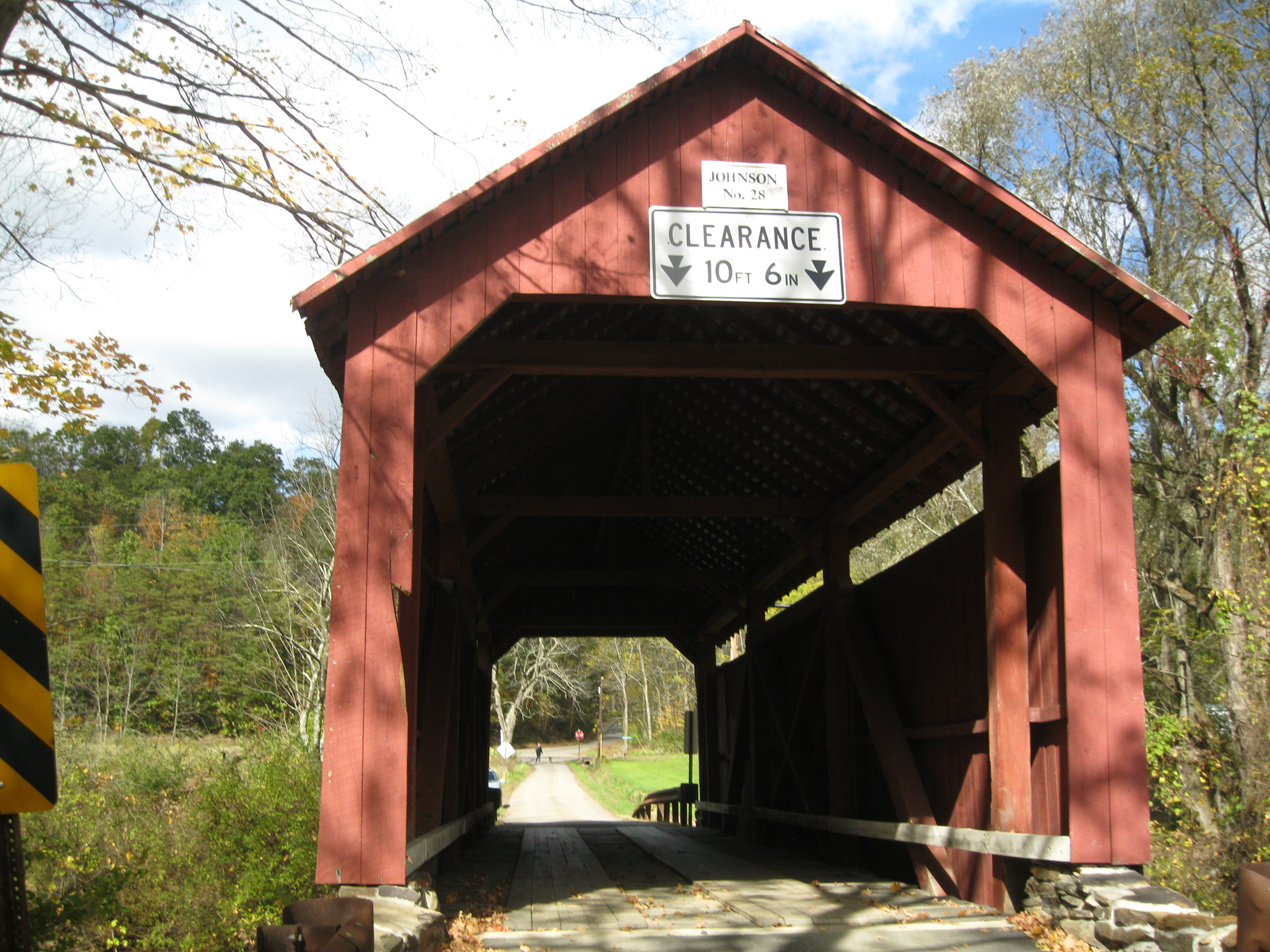 Johnson Covered Bridge, originally built in 1882 over Mugser Run in Cleveland Township, Columbia County, Pennsylvania, USA.